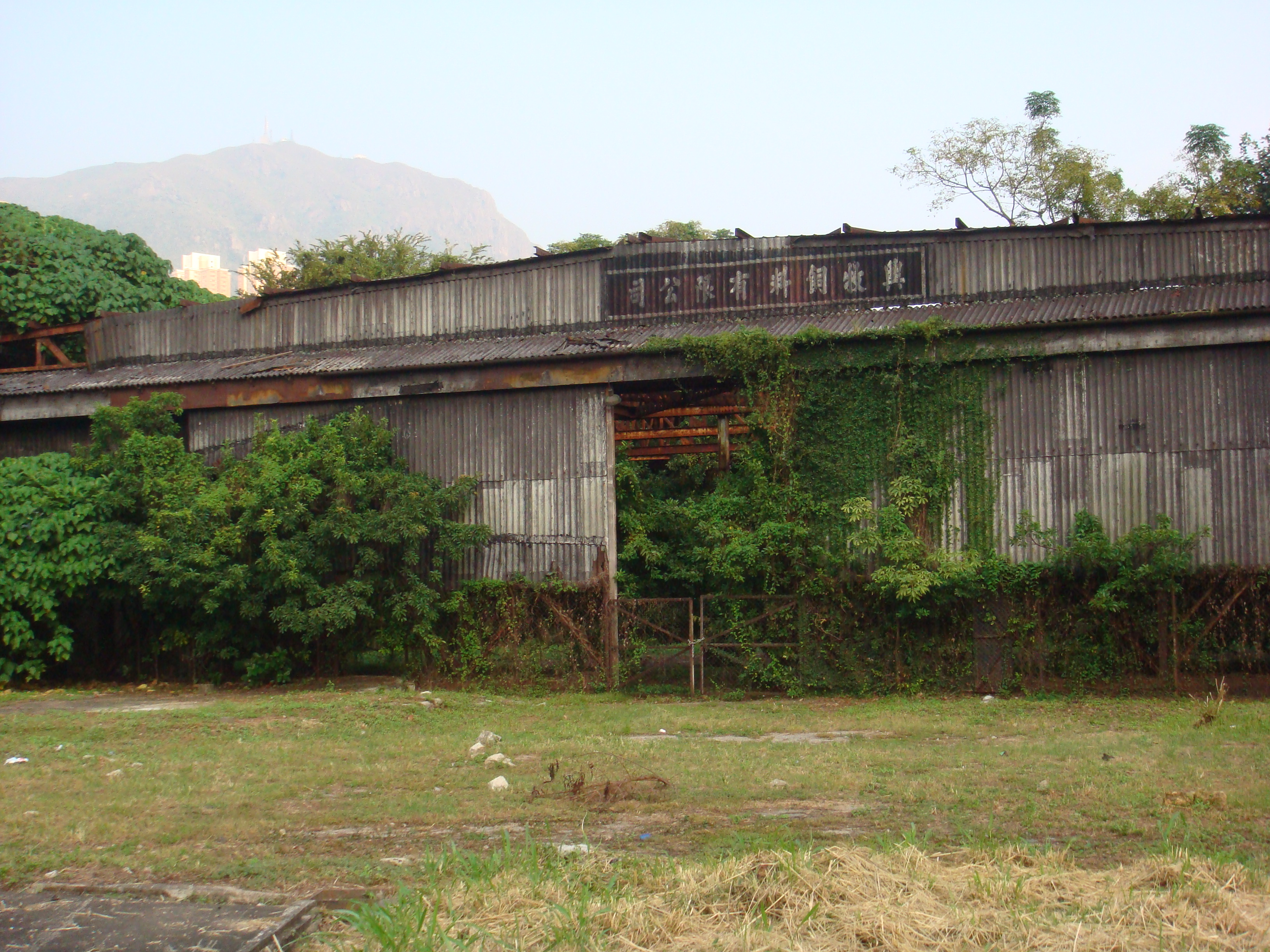 Former Royal Air Force Hangar at Tai Hom Village, Hong Kong 中文（香港）: 九龍鑽石山前皇家空軍飛機庫